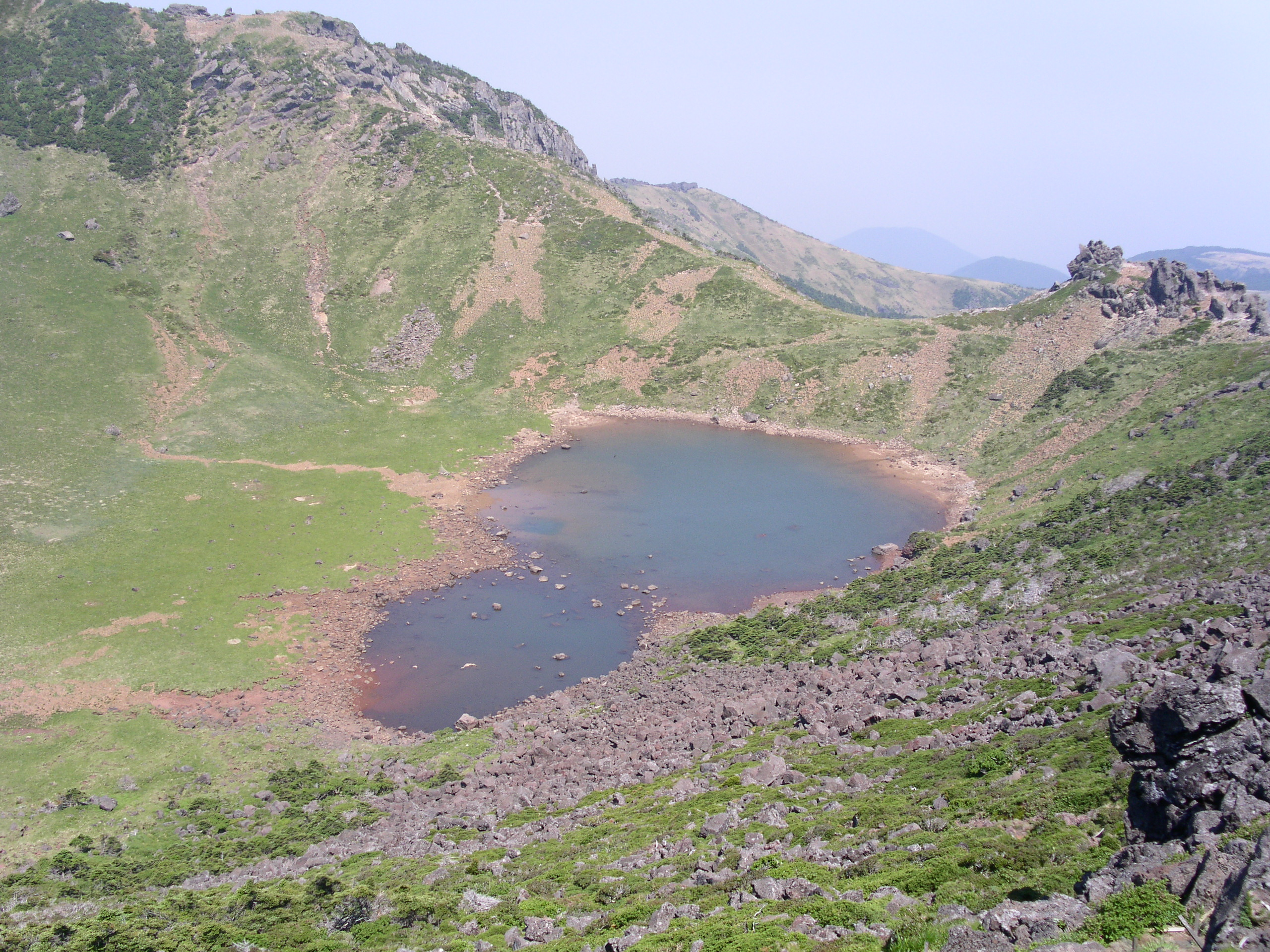 Photograph of the crater lake Baengnokdam on top of Hallasan in the island province of Jeju, South Korea.